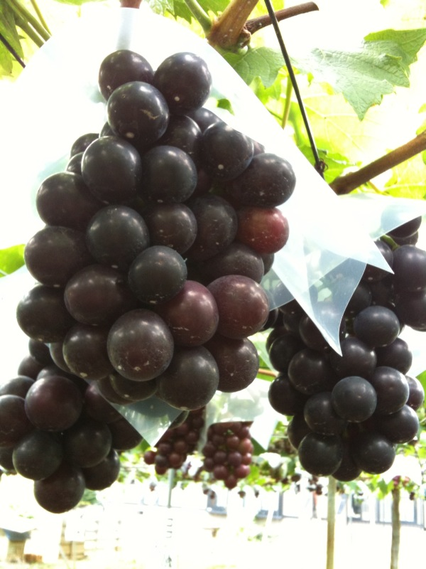 Fujiminori, one of the grape species developed in Japan.